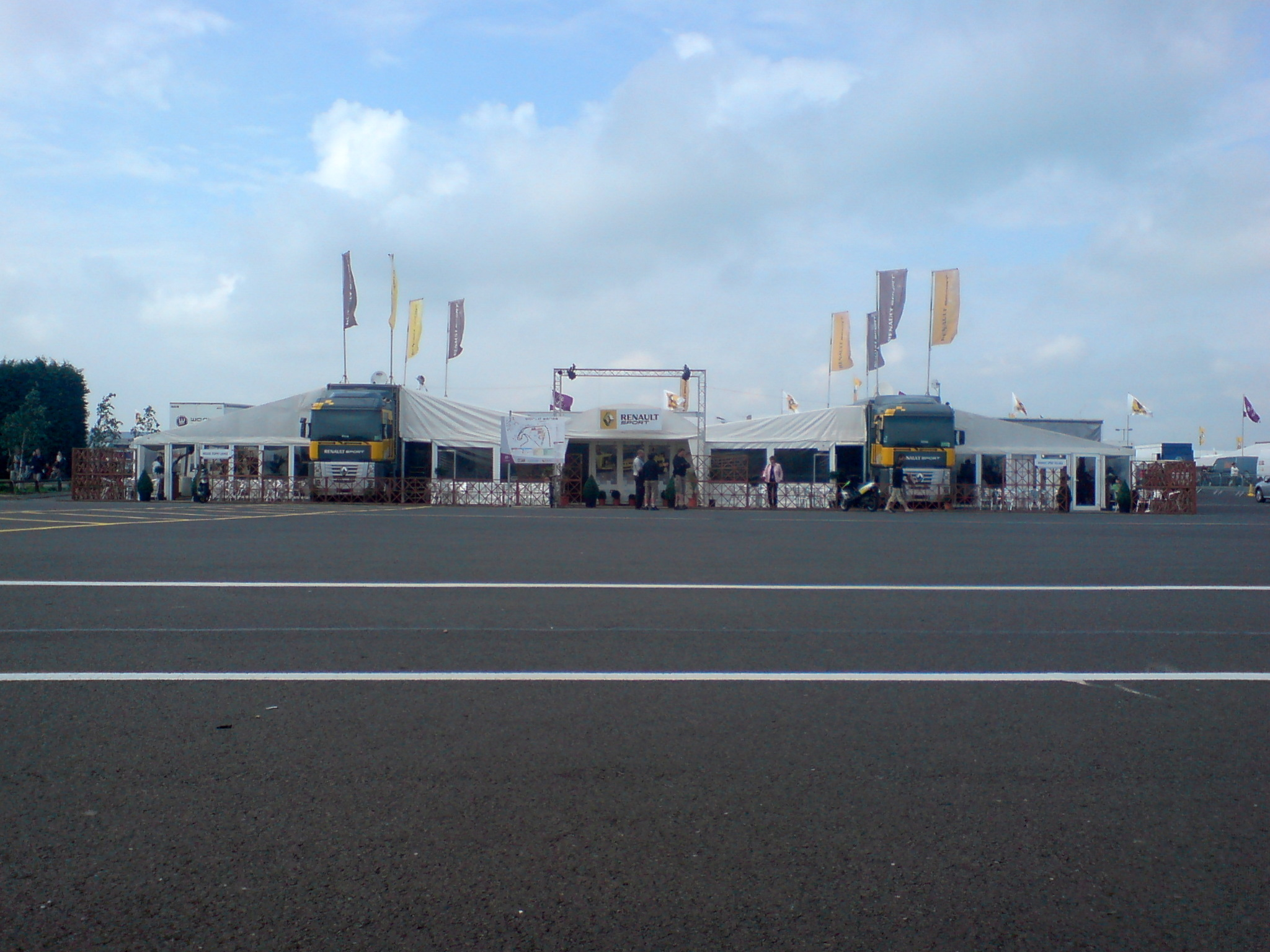 Renault Sport articulated lorries with extended tents, representing Renault at Silverstone for the Renault World Series.